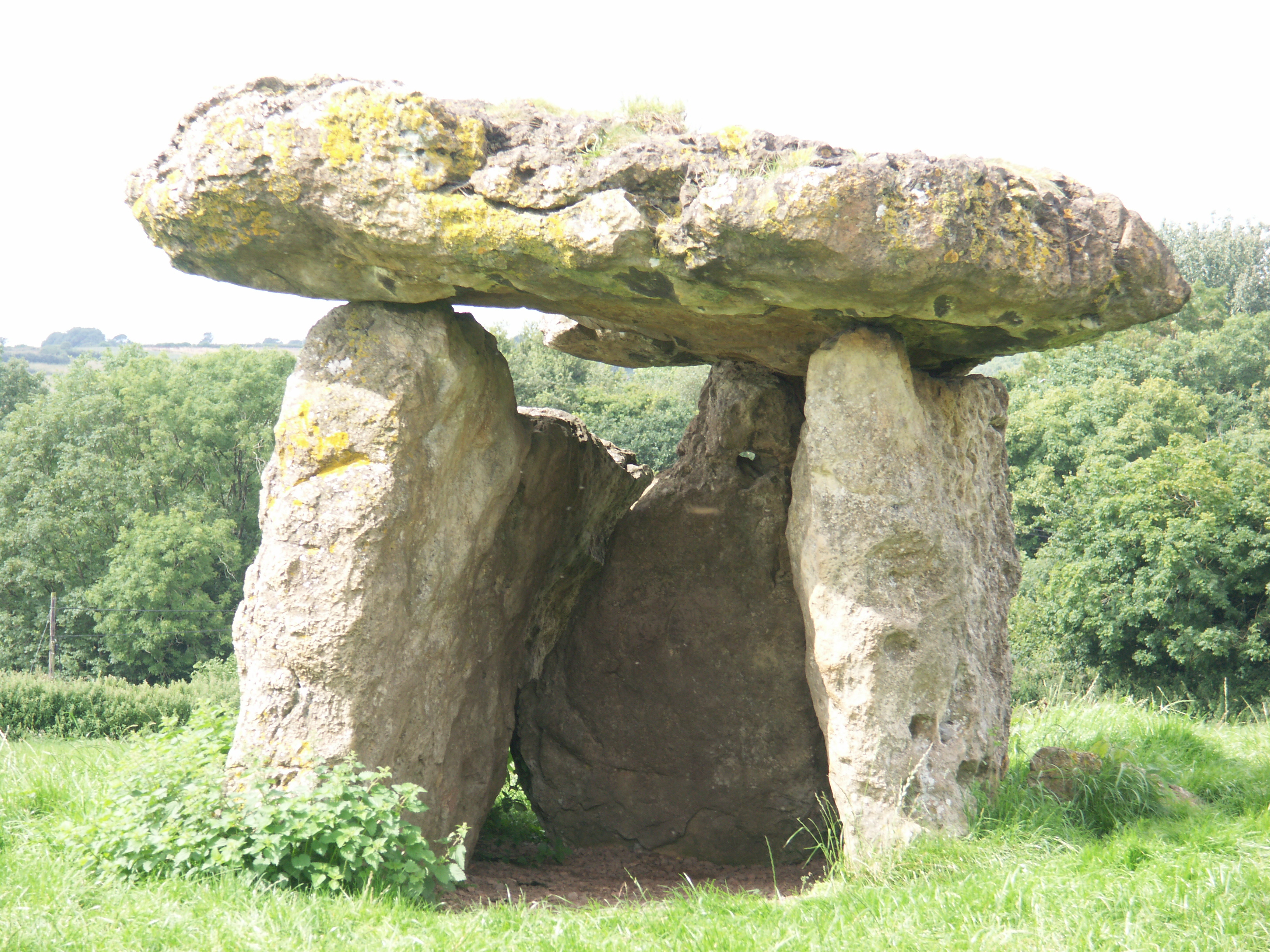 Siambr Gladdu Lythian Sant